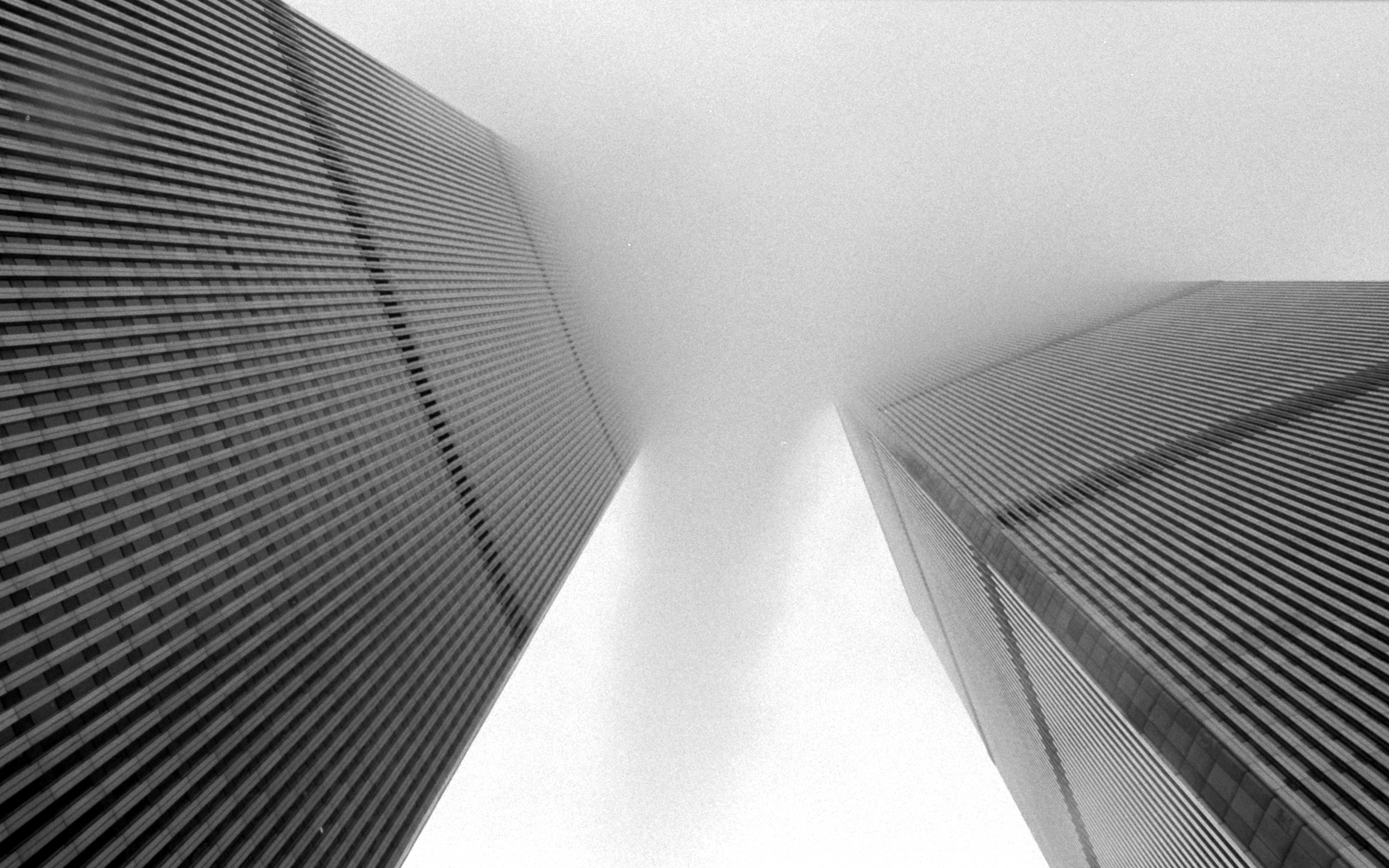 "Between the towers of the World Trade Center as a cloud passes between them."